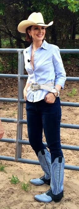 I snapped this photo of Janine while interviewing her about what it means to be a Texan in May of 2014. Original photo taken on iPhone by Foundation Studios with permission granted directly from Janine Turner to use for Wikipedia.